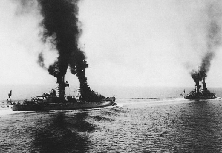 Italian battleships Andrea Doria and Caio Duilio